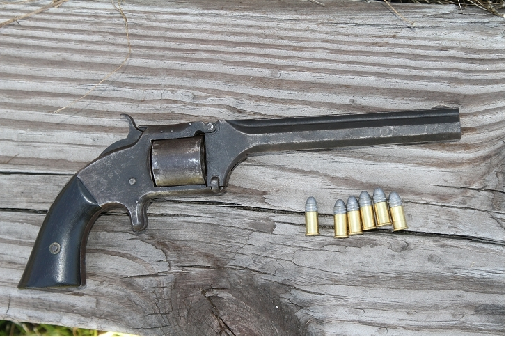 Smith and Wesson Model 2 .32 Rimfire Revolver made in 1865. It came to Texas in 1871 the property of J. E. Henry Cumpston B. circa 1830 Ireland d. 1916.Blooming Grove Texas.